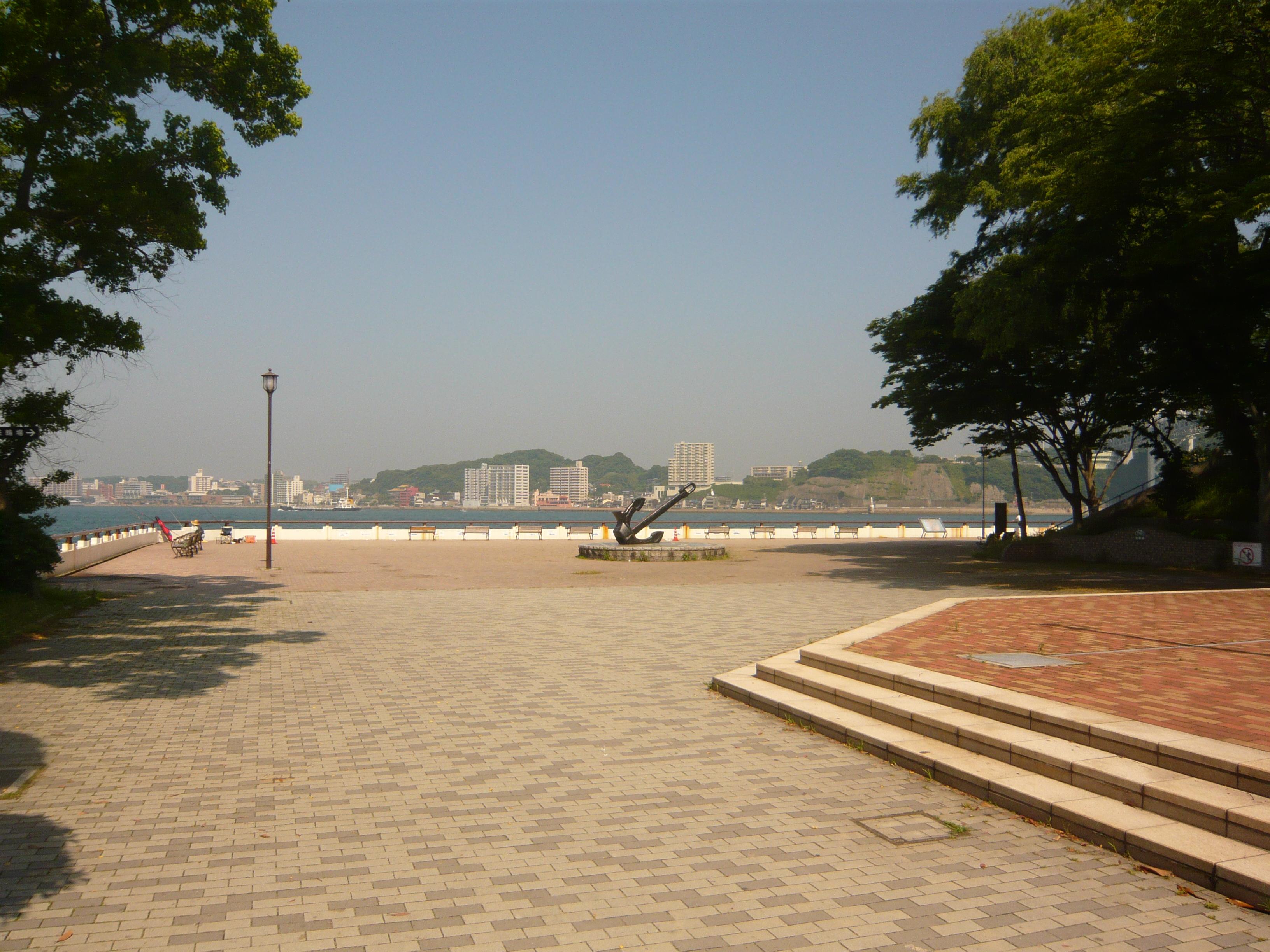 Mekari Park, Kitakyushu, Fukuoka, Japan